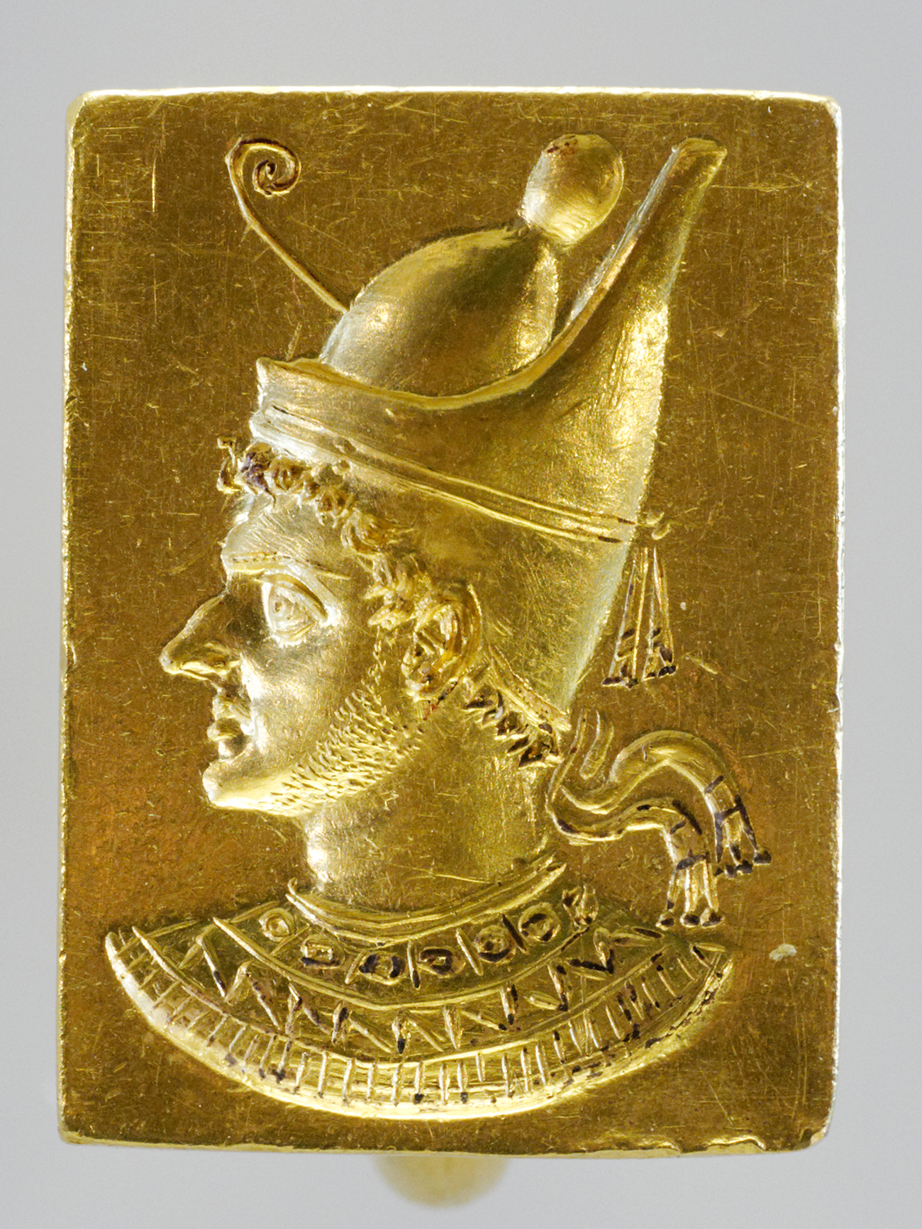 Ptolemy VI Philometor (Greek: Πτολεμαῖος Φιλομήτωρ, Ptolemaĩos Philomḗtōr, c. 186–145 BCE), a king of Egypt of the Ptolemaic dynasty, is shown wearing the pschent, the traditional double crown of Ancient Egypt. Greek artwork, 3rd–2nd century BCE.